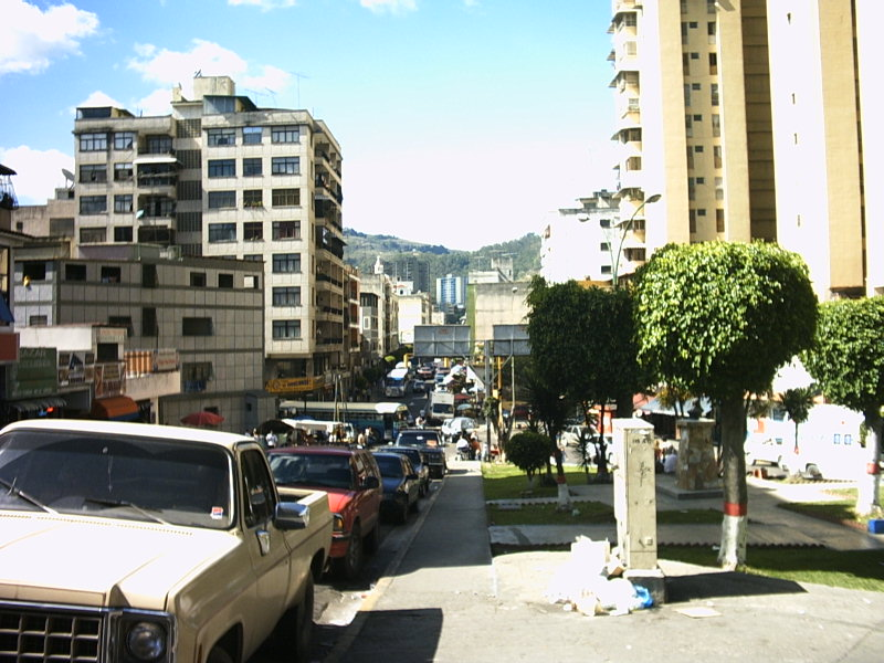 Buildings in Los Teques